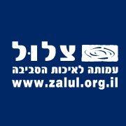 Zalul logo